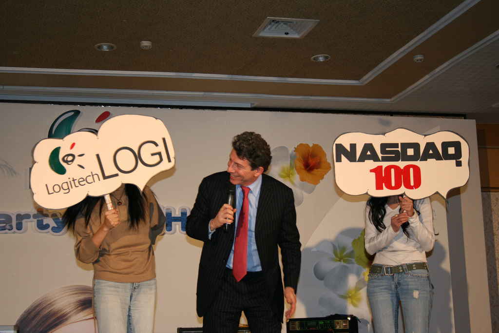 During the annual Logitech Chinese New Year party in Taiwan, CEO Guerrino De Luca announces that Logitech has joined the NASDAQ 100.